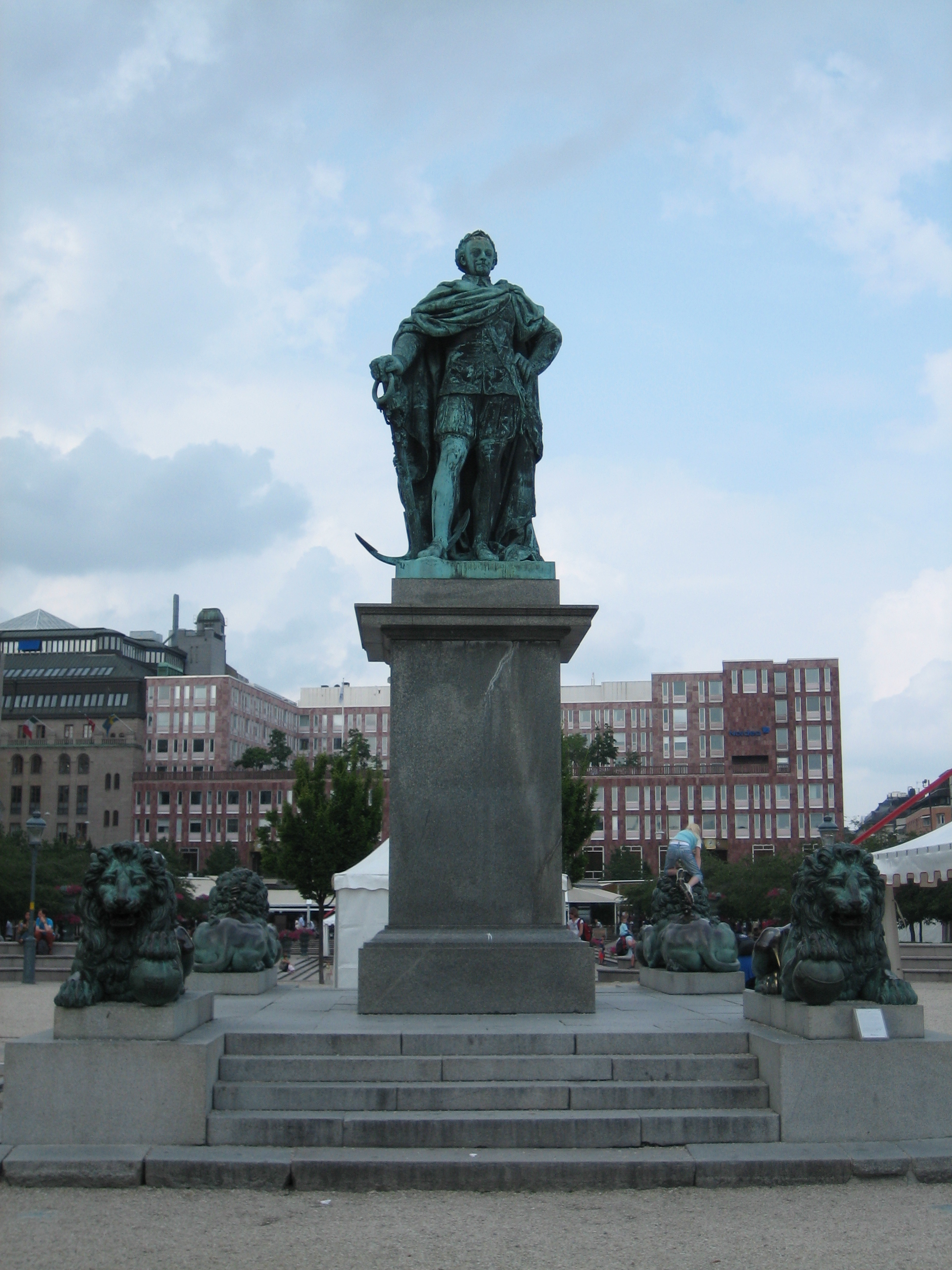 Karl XIII, swedish king, statue in Kungsträdgården, Stockholm, Sweden